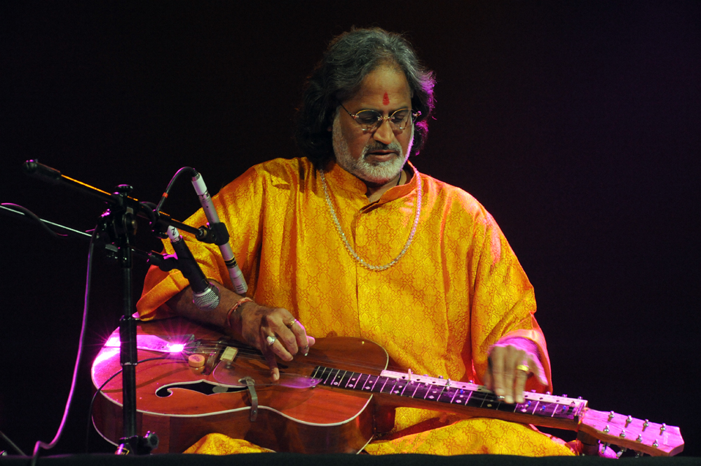 Vishwa Mohan Bhatt playing Mohan Veena in Warszawa, Poland during the 5th Cross Culture Festival